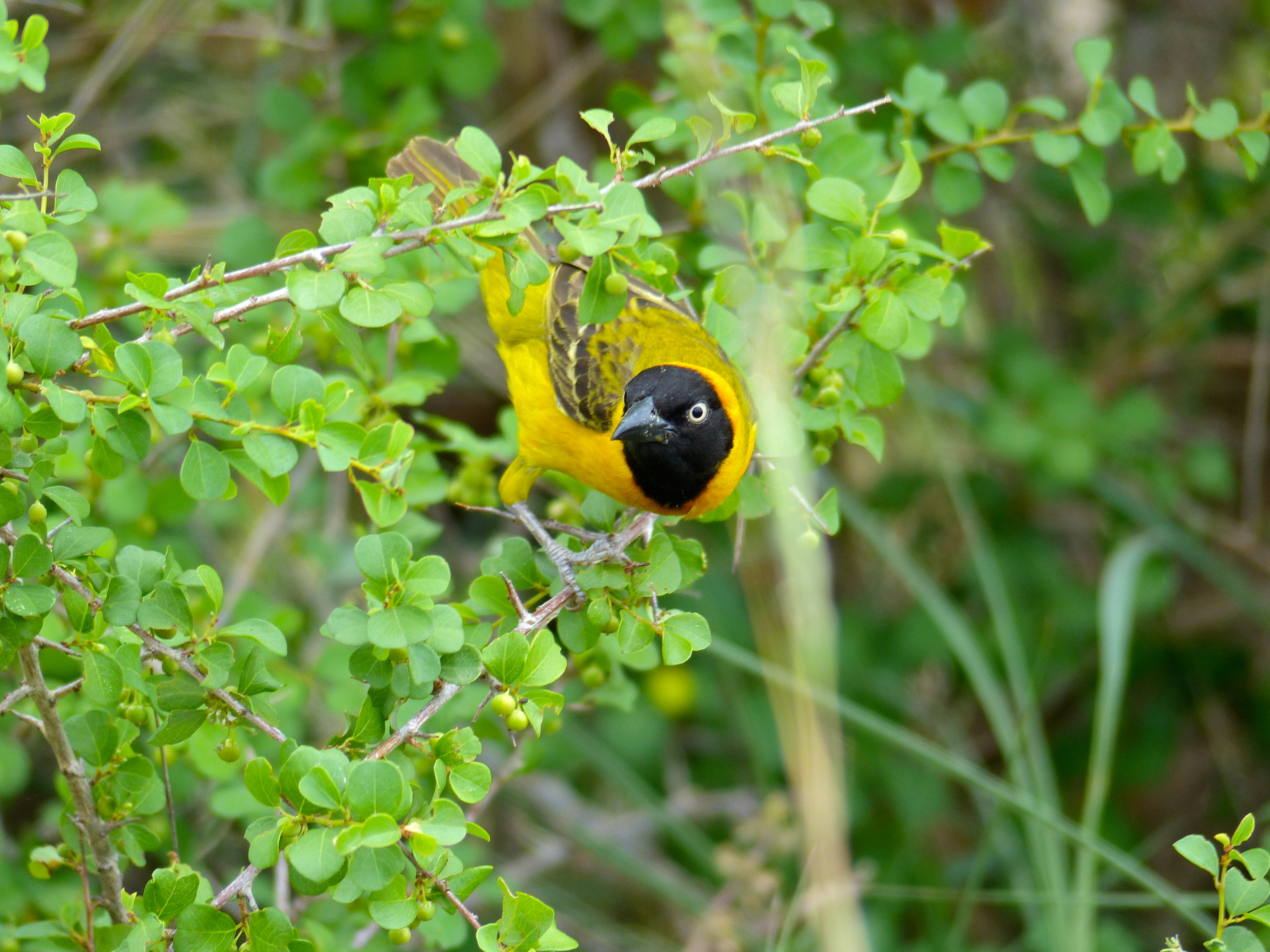 H6 Road East of Satara, Kruger NP, SOUTH AFRICA